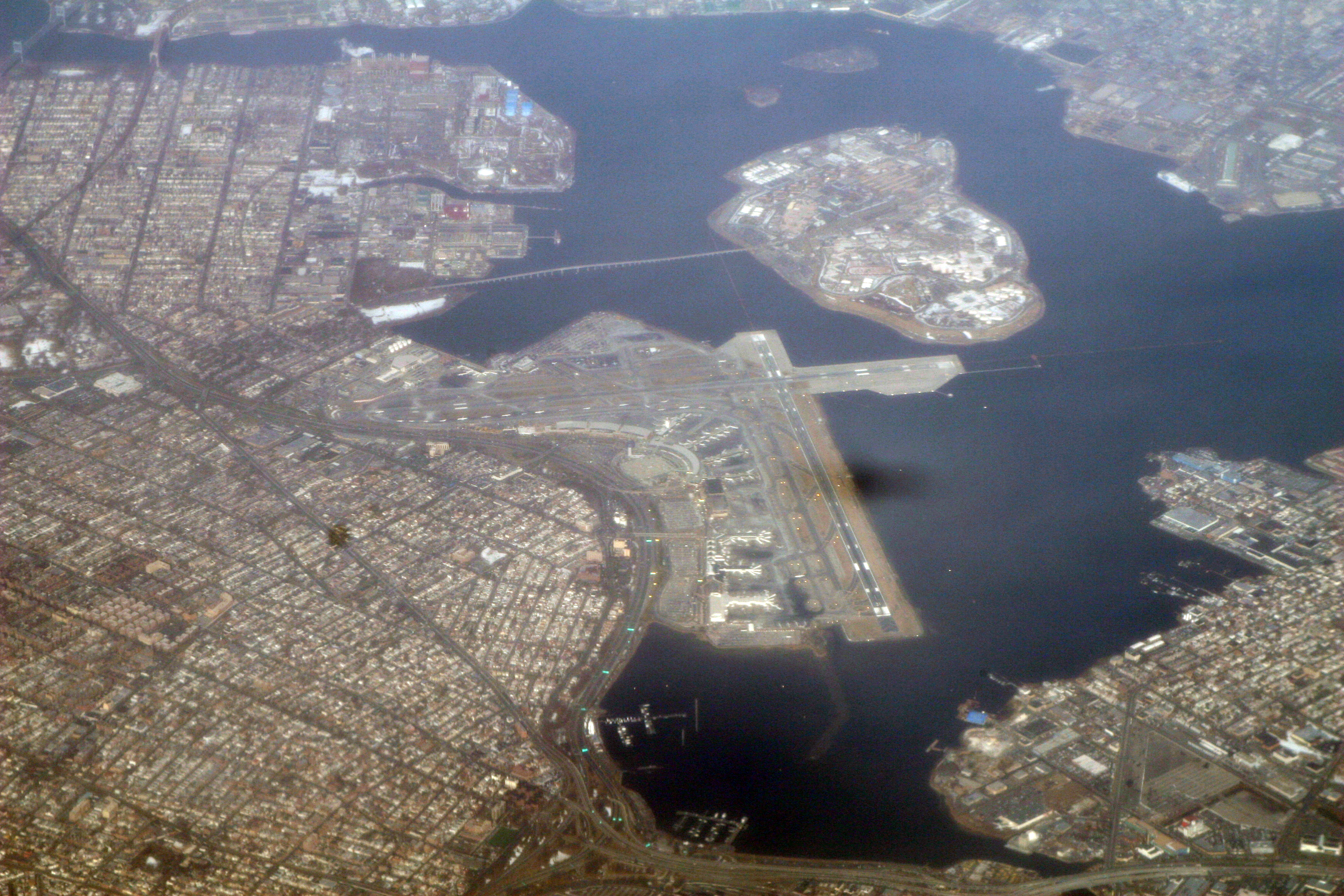 Aerial photograph of LaGuardia Airport and Rikers Island, New York City. The Bowery Bay Wastewater Treatment Plant is seen along the Queens shoreline just above the Rikers Island bridge.